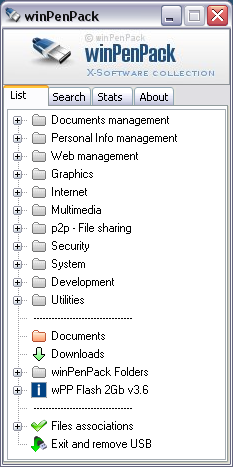 winPenPack Menu Screenshot